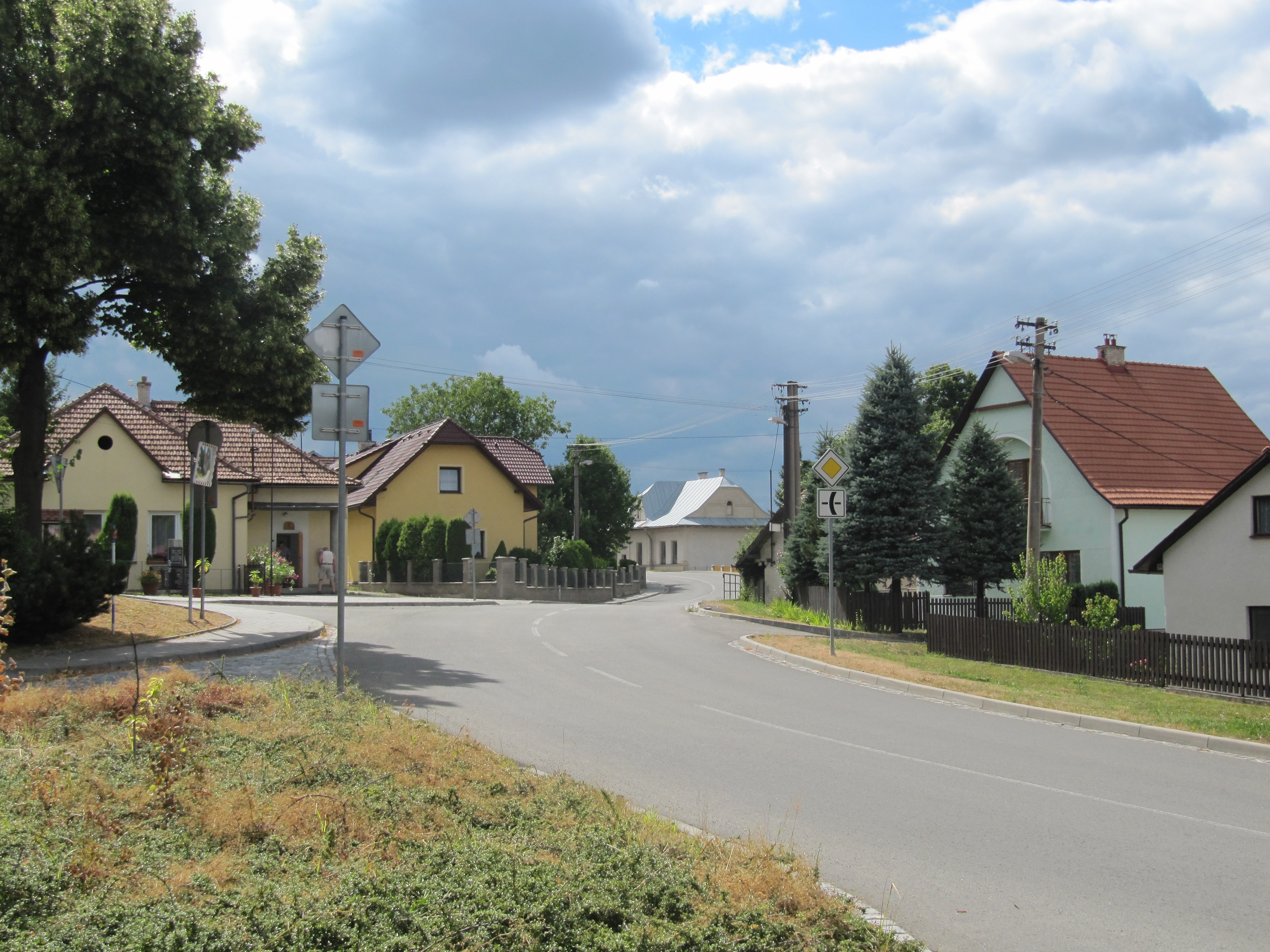 Valašské Klobouky, Zlín District, Czech Republic, part Lipina.